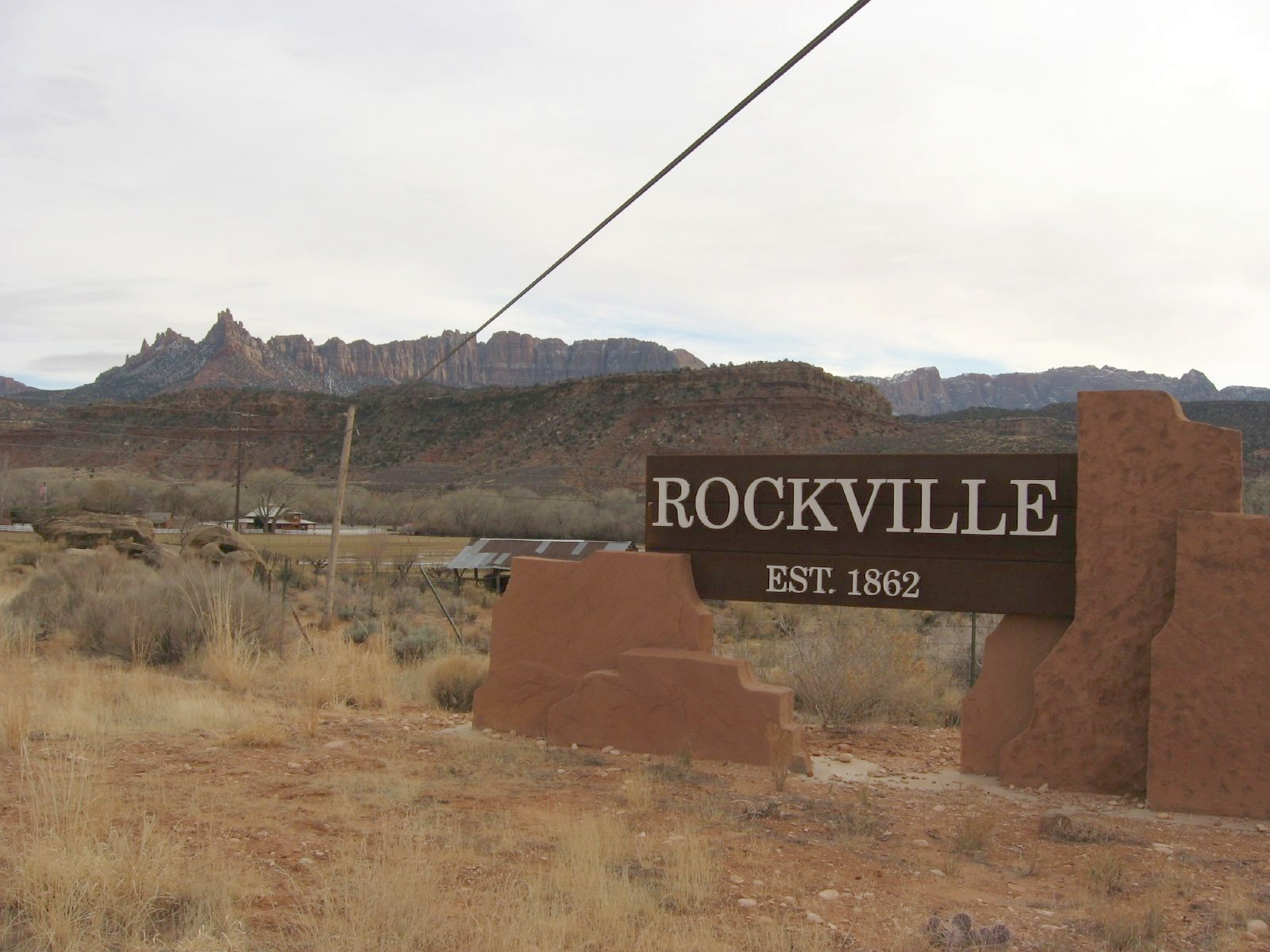 Welcome sign at Rockville, Utah, United States.